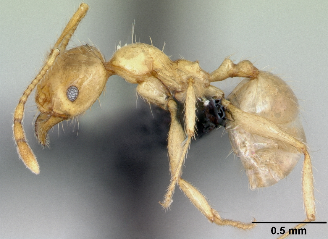 Profile view of ant Pheidole pallidula specimen casent0080858.